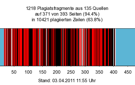 black = plagiarized from one source, red = plagiarized from several sources, white = no plagiarism found, blue = table of contents and appendices